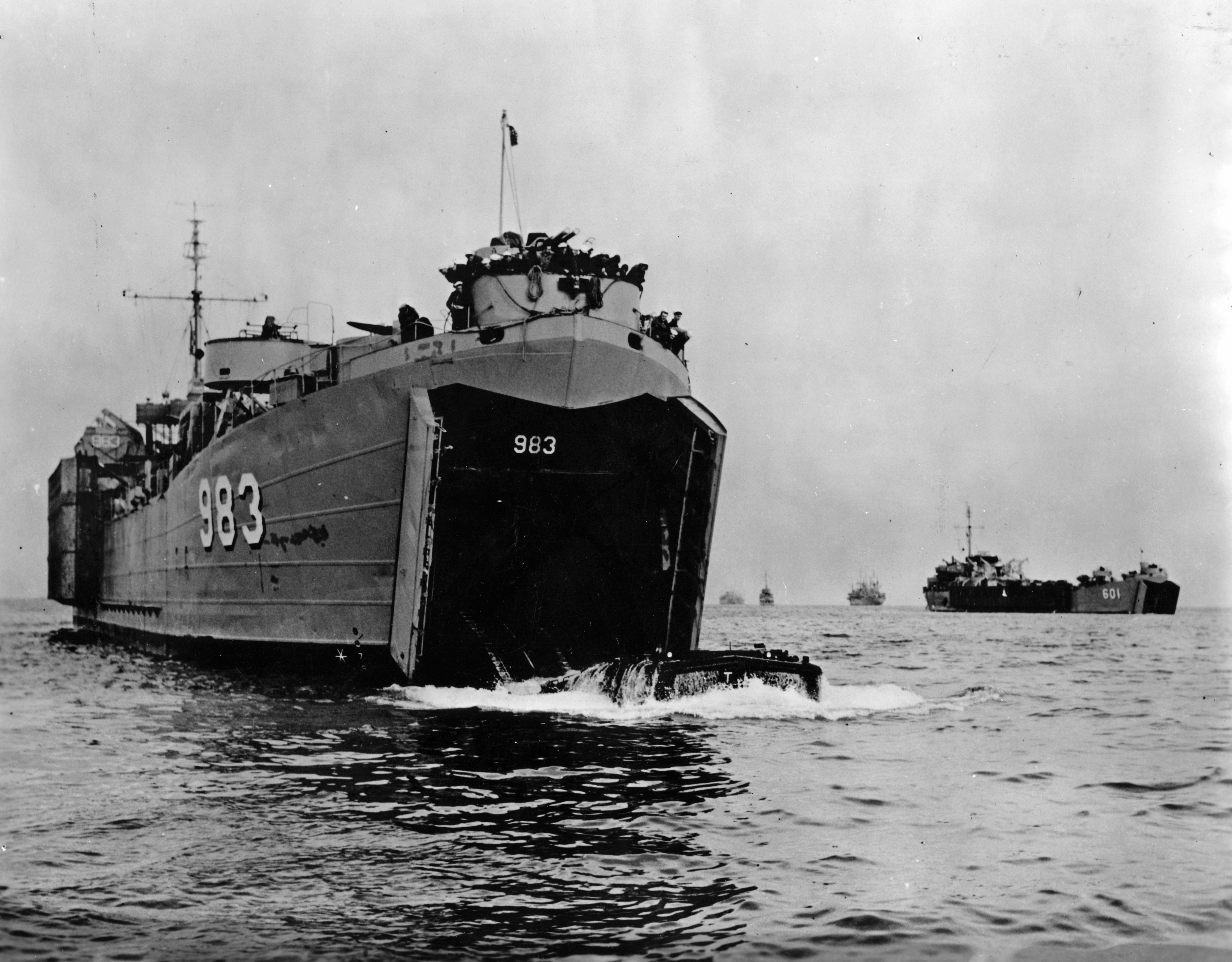 The U.S. Navy tank landing ship USS Middlesex County (LST-983) launches a U.S. Marine Corps LVTP-5 for a waterborne landing, in the 1960s. USS Clarke County (LST-601) is visible in the background.